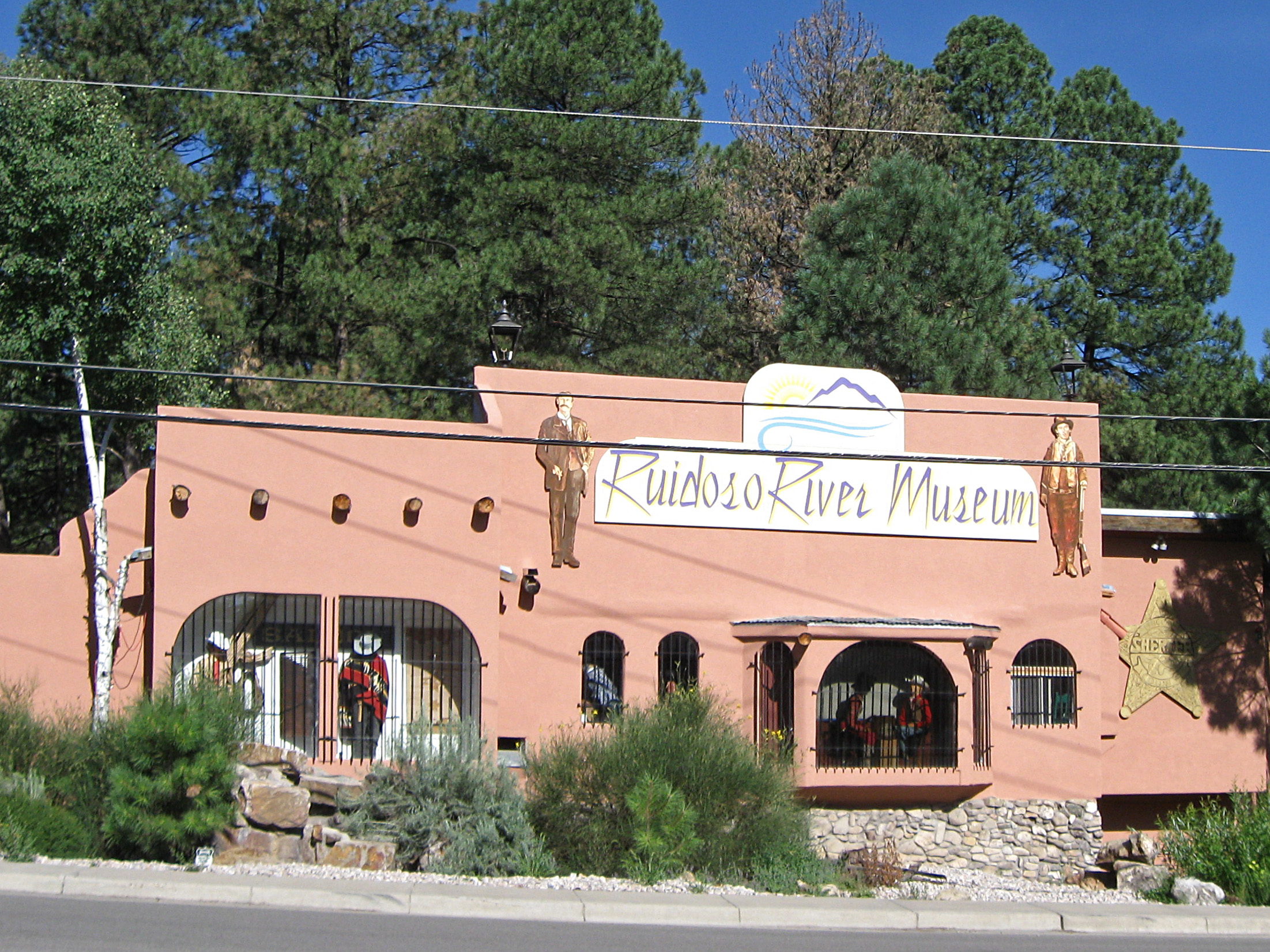 Ruidoso River Museum, located at 101 Mechem Drive in Ruidoso, New Mexico.